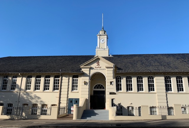 Image of a Private Boys School in Sydney Eastern Suburbs